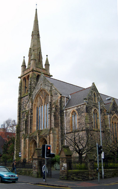 Fisherwick Presbyterian Church, Belfast Built 1898-1901 to a design by Samuel P. Close.